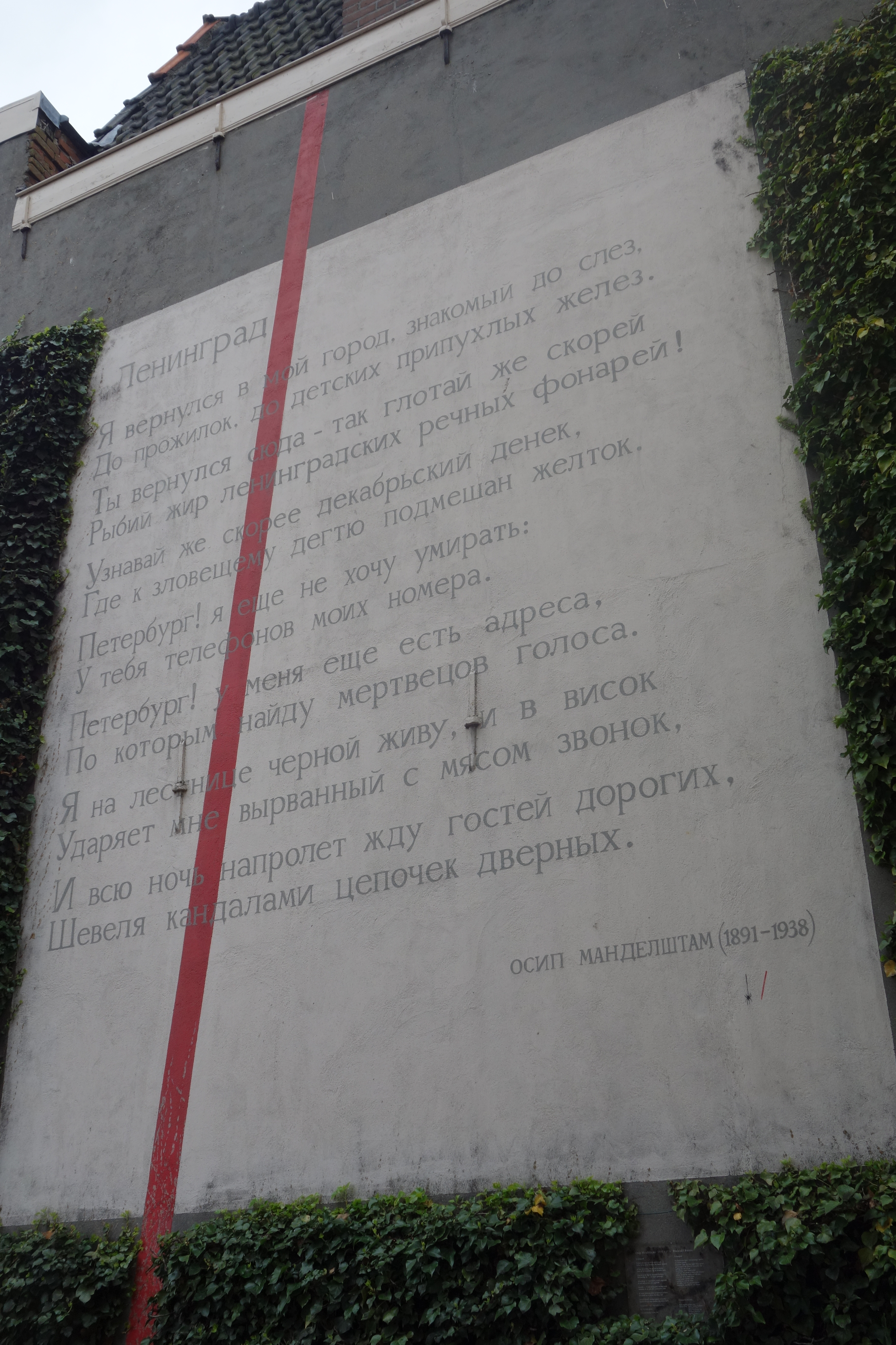 Wall poem at Haagweg, Leiden (the Netherlands): Leningrad by Osip Mandelstam